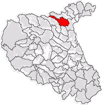 Map of limits of commune in Vrancea County